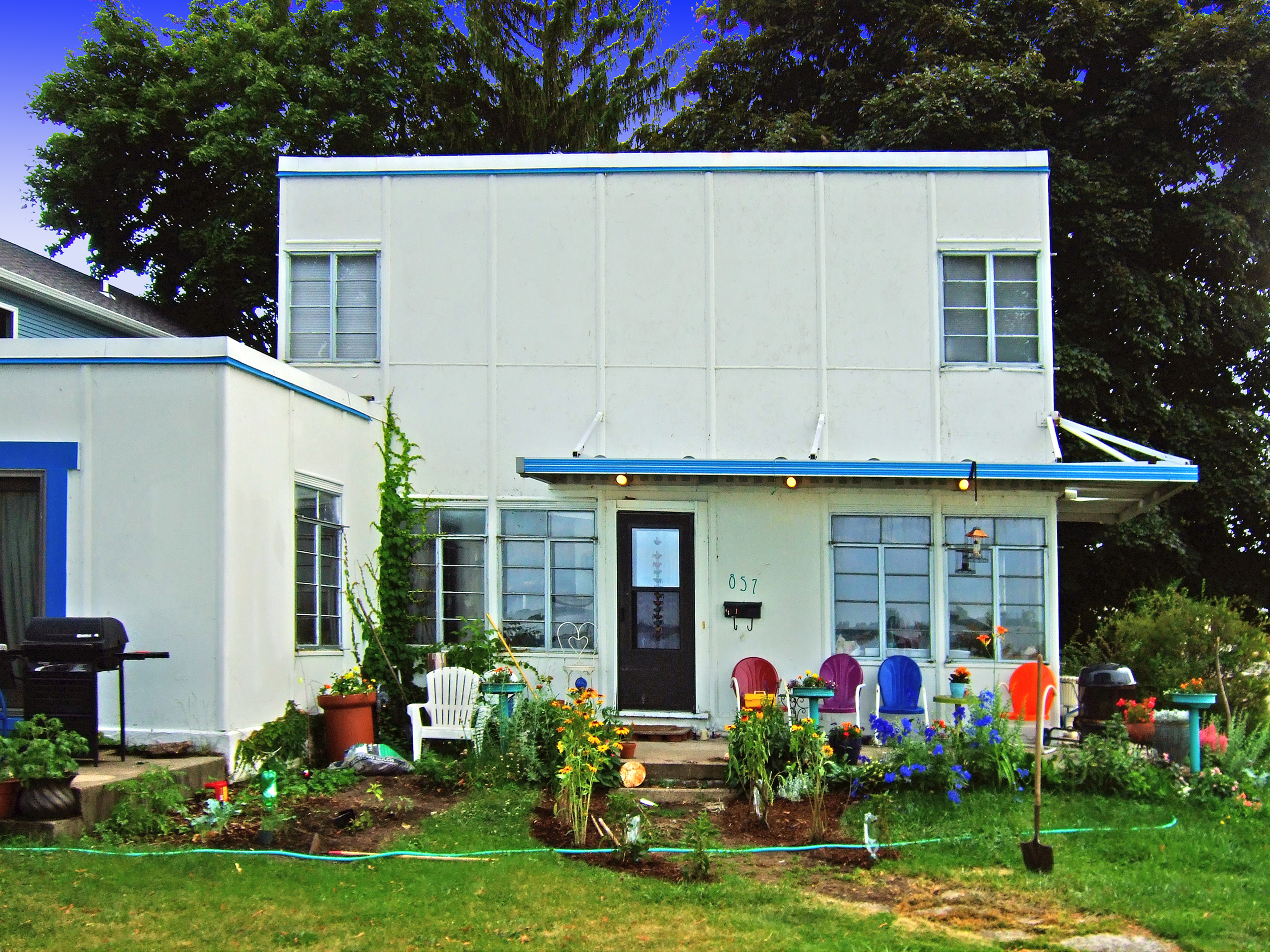 The Ernest Eggiman House (1936) at 857 South Shore Drive in Madison, Wisconsin, was added to the National Register of Historic Places in 1994.